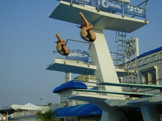 Sharleen Stratton and Bree Cole from Australia in perfect unison in a Synchronized Springboard Diving Competition